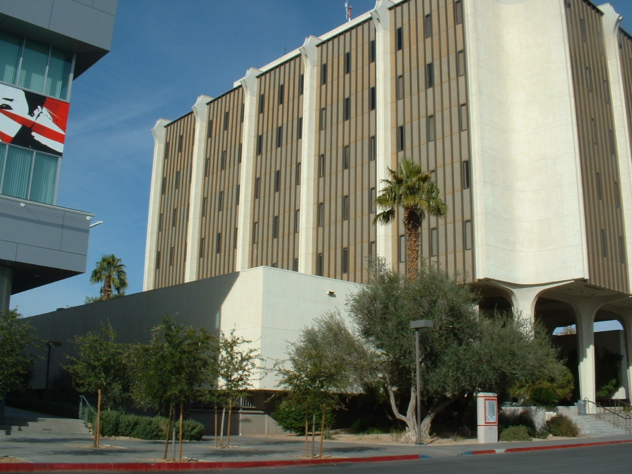 University of Nevada, Las Vegas